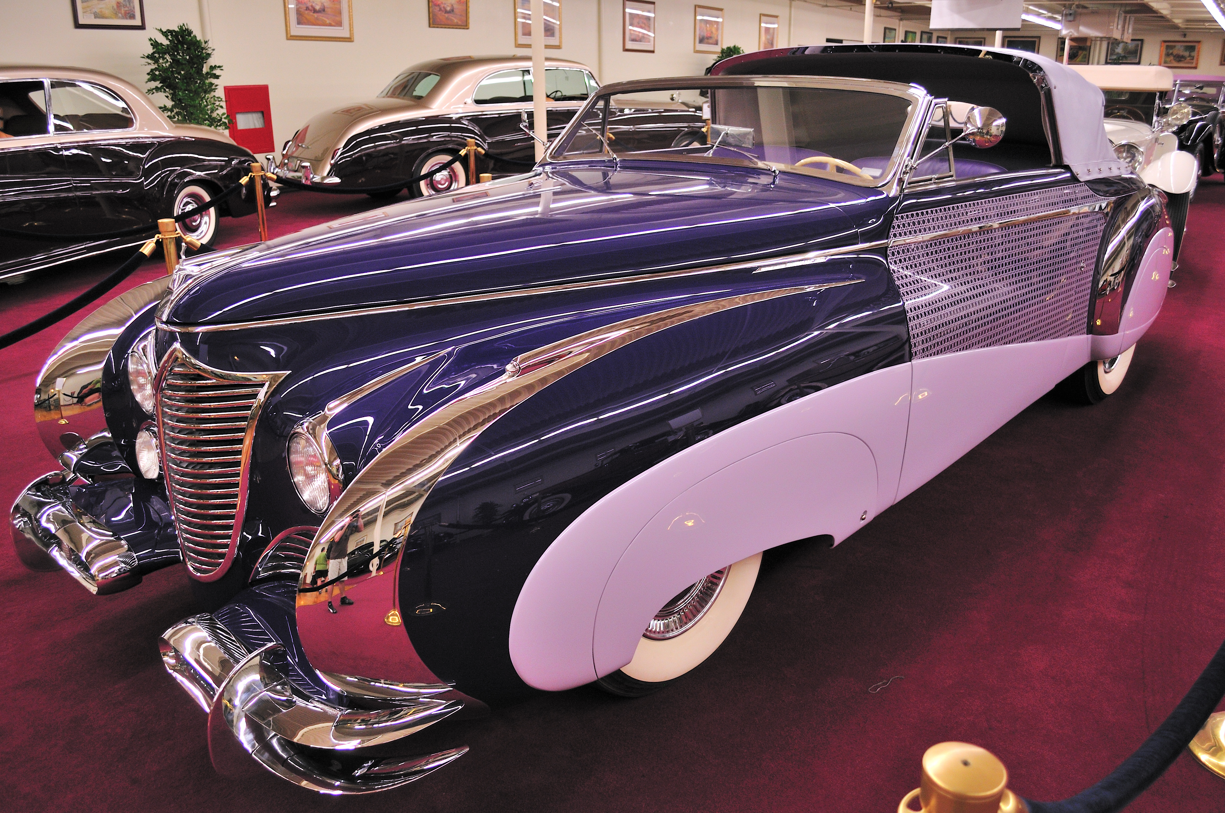 ID #486234577 Some of the most flamboyant, and expensive coachwork ever to come out of France was created, or caused to be, by expatriate russian cabinet maker Jacques Saoutchik. Although firmly established before the beginning of world war I, it was not until the twenties that Saoutchik rose above most of his contemporaries. After WWII, more lavish and flamboyant designs were built by Saoutchik. In 1948, noted New York city furrier Louis Ritter commissioned Saoutchik to execute a special convertible on a Cadillac chassis. The car was completed in time to be displayed at the Paris salon of 1949. The car stole the show and after having it shipped back to New York, he drove it to California. Ritter used the car around Beverly Hills for a number of months and then, as usual, offered the car for sale.